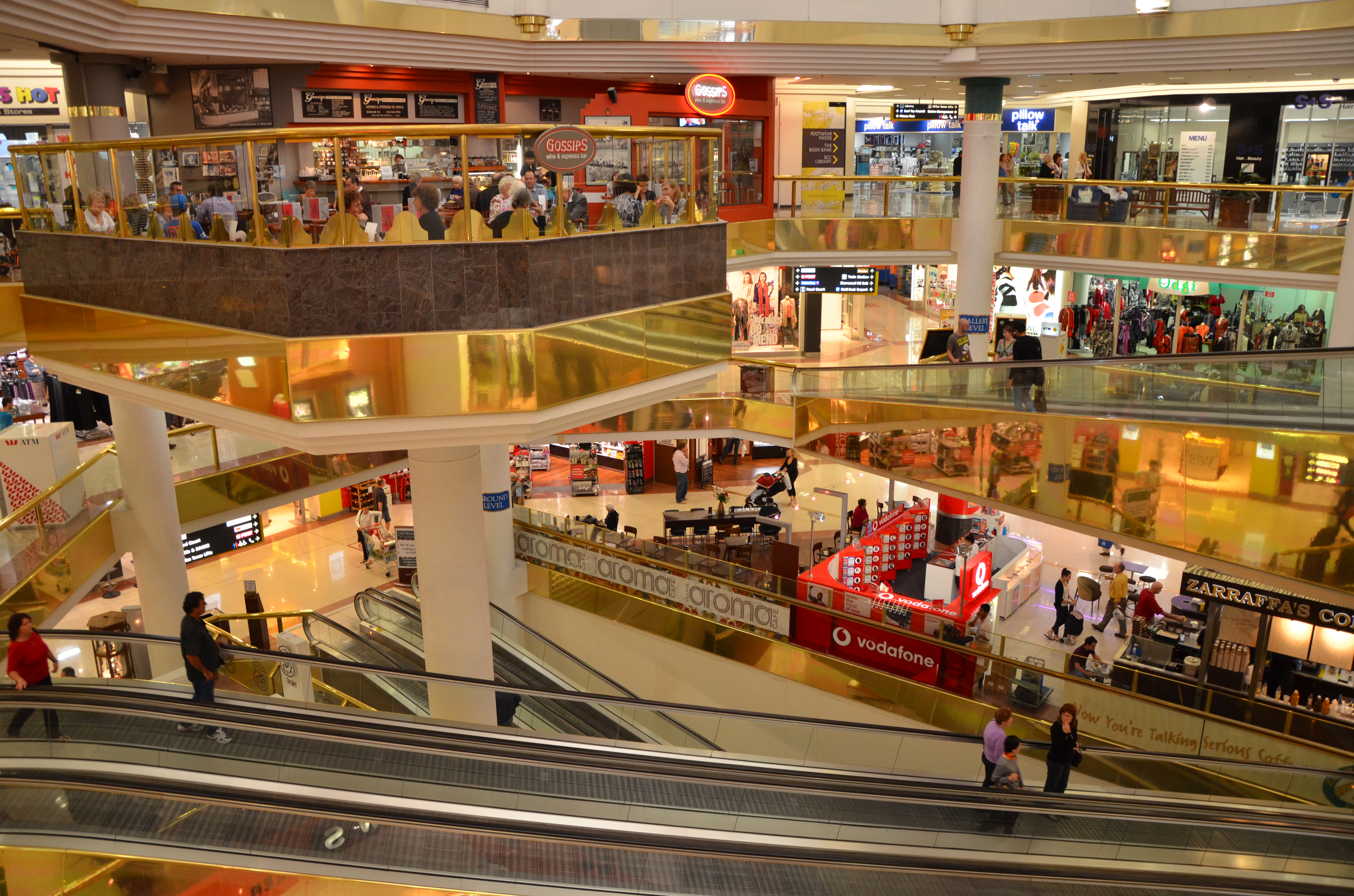 Toowong Village